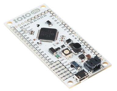 IOIO OTG cropped to show only the PCB.